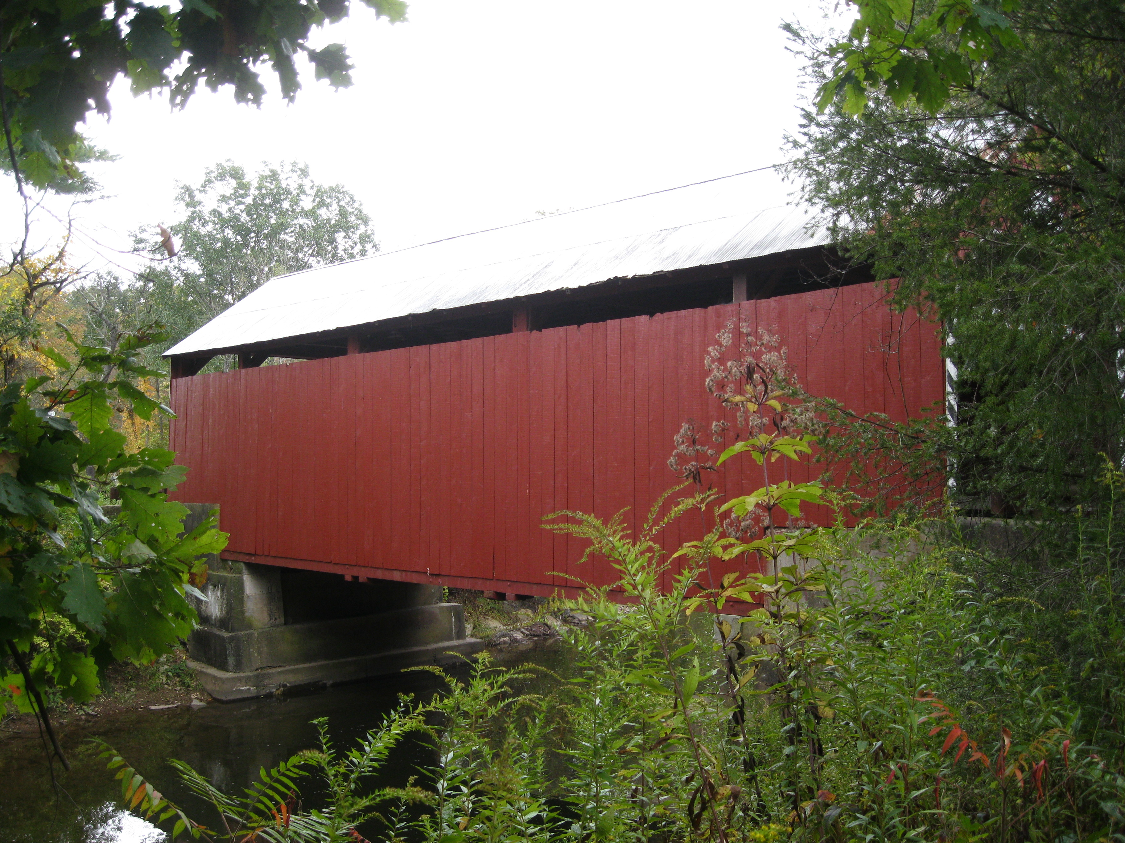 Snyder Covered Bridge No. 17 originally built in 1860 over the North Branch of Roaring Creek in Locust Township in Columbia County, Pennsylvania, in the United States.